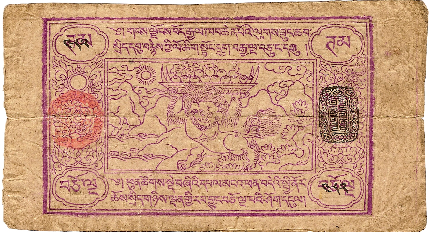 Tibetan 15 tam banknotes, dated T.E. 1659 ( = AD 1913) face